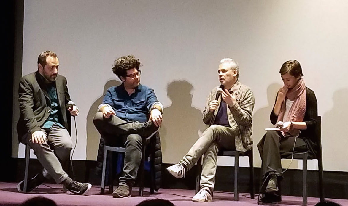 Stéphane Brizé (second from the right) in Buenos Aires in 2019, at the San Martín Theater, talking about 'The Measure of a Man' (La Loi du marché, 2015) and 'At War' (En Guerre, 2018). Next to him (second from the left), Argentine filmmaker Rodrigo Moreno. The event was organized with the support of UniFrance, Institut français d'Argentine and Alliance Française de Buenos Aires. Photograph by Federico Gatto, 2019.